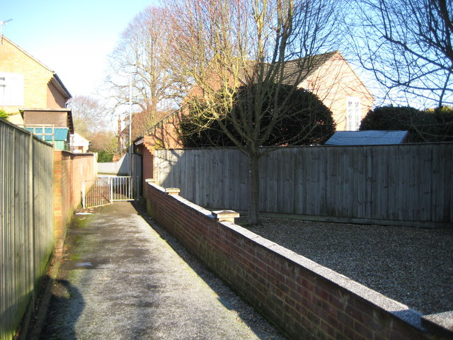 Newbury West Fields Halt railway station, on the Lambourn Valley Railway, was generally located off to the right of this alleyway between Craven and Clifton Roads. It opened in 1906 some eight years after the line to Lambourn was opened, and closed in 1957, some three years before the rest of the line.